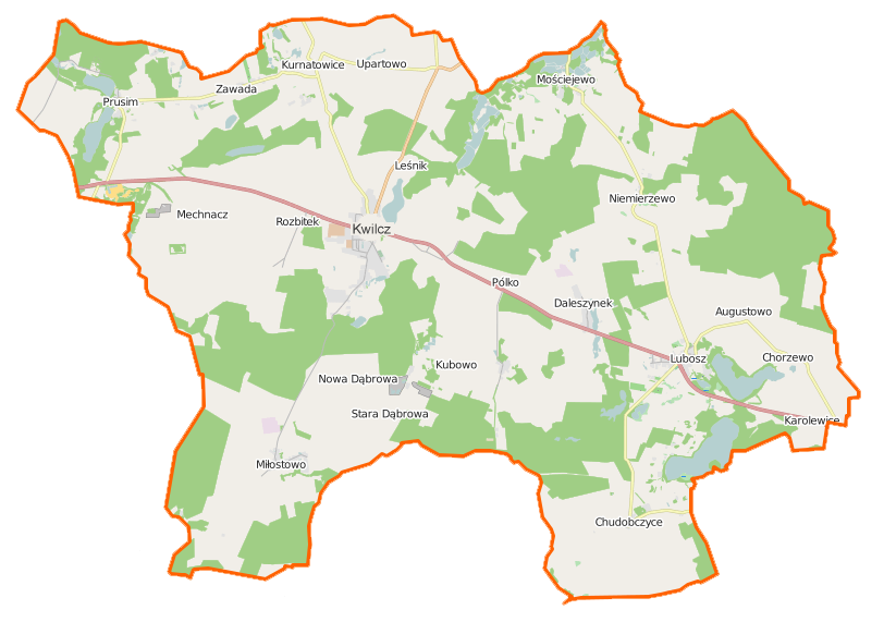 Map of Gmina Kwilcz, Poland This map of Kwilcz (gmina) was created from OpenStreetMap project data, collected by the community. This map may be incomplete, and may contain errors. Don't rely solely on it for navigation. Border coordinates52.598915.9676←↕→16.246552.4797